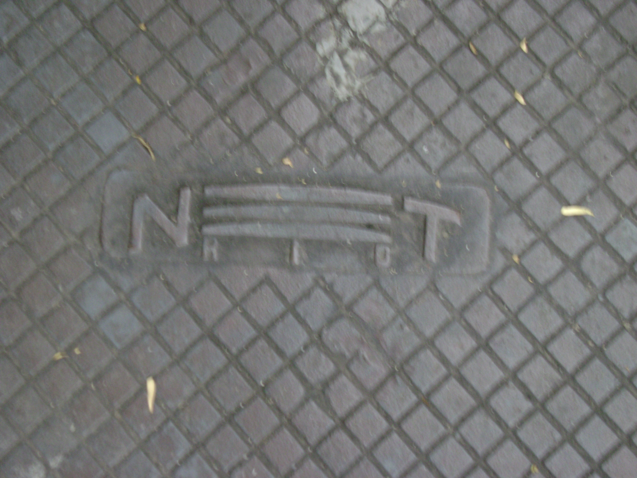 Poço de visita (bueiro) da Net, em Belo Horizonte.